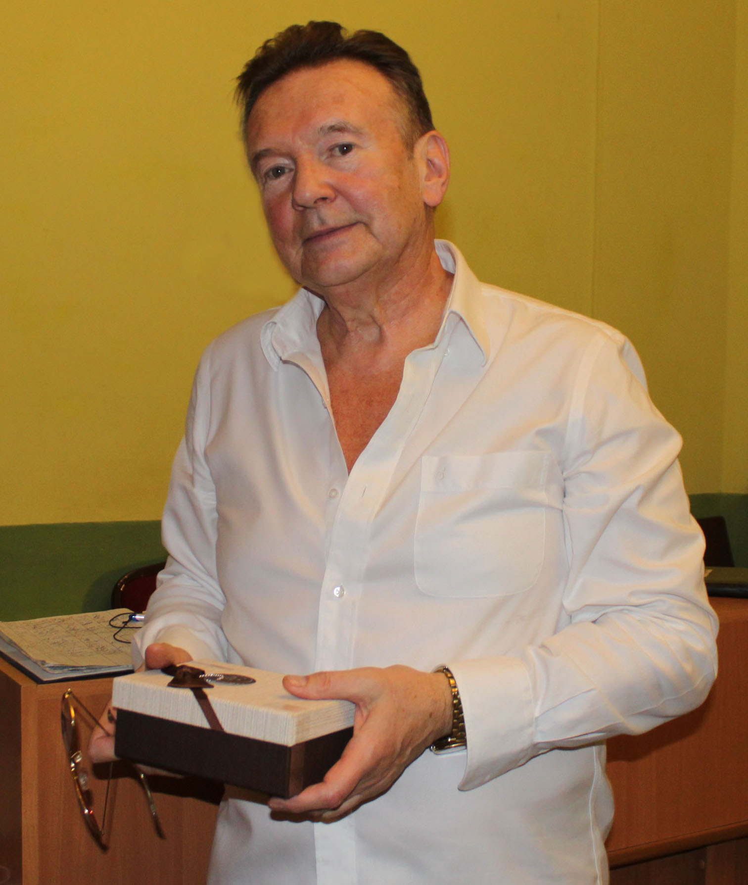 Valery Poletaev. Theatre "Comediants". 2018.